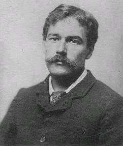 image of Henry Scott Tuke